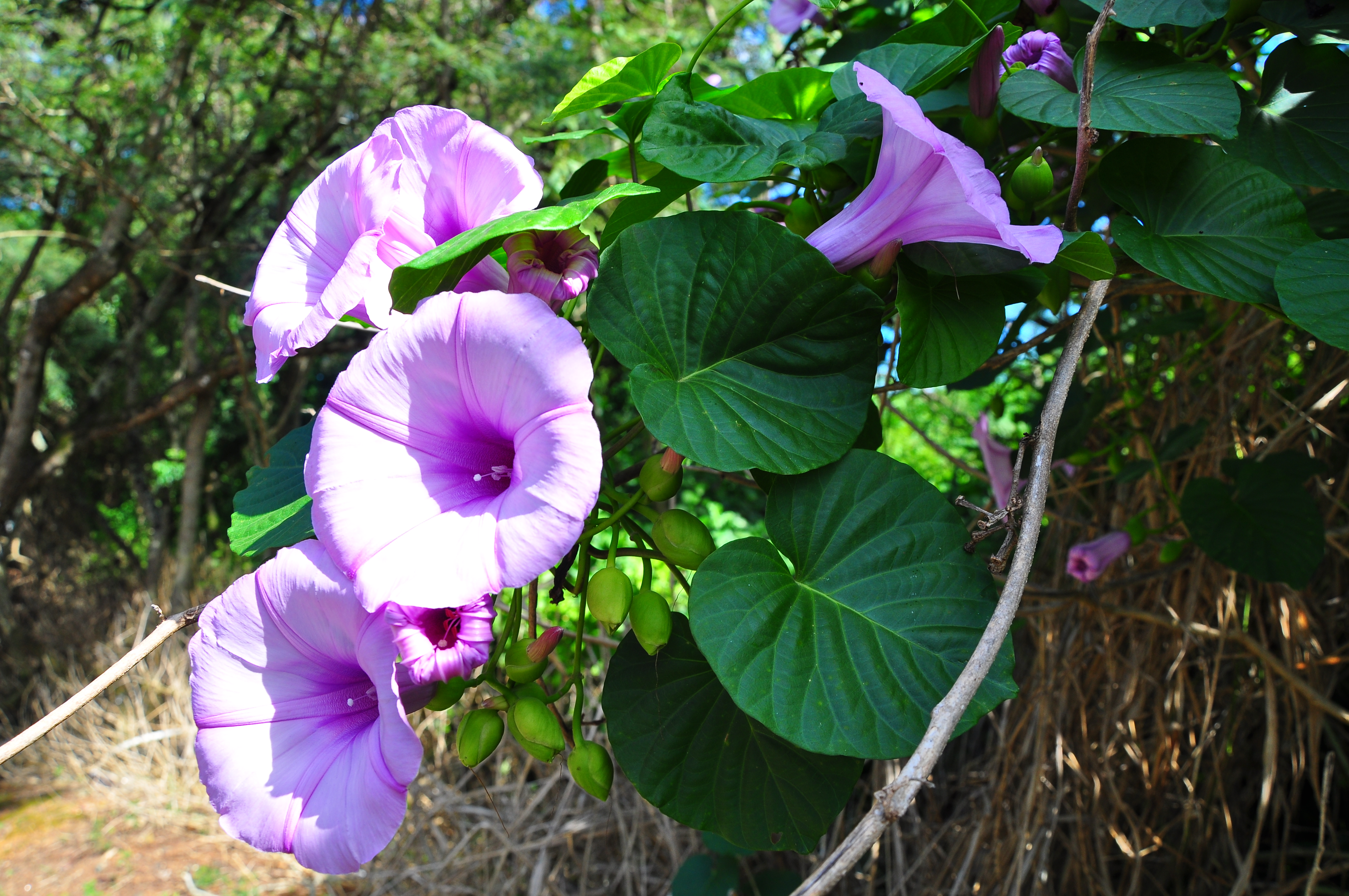 Follow up shot w/leaves.